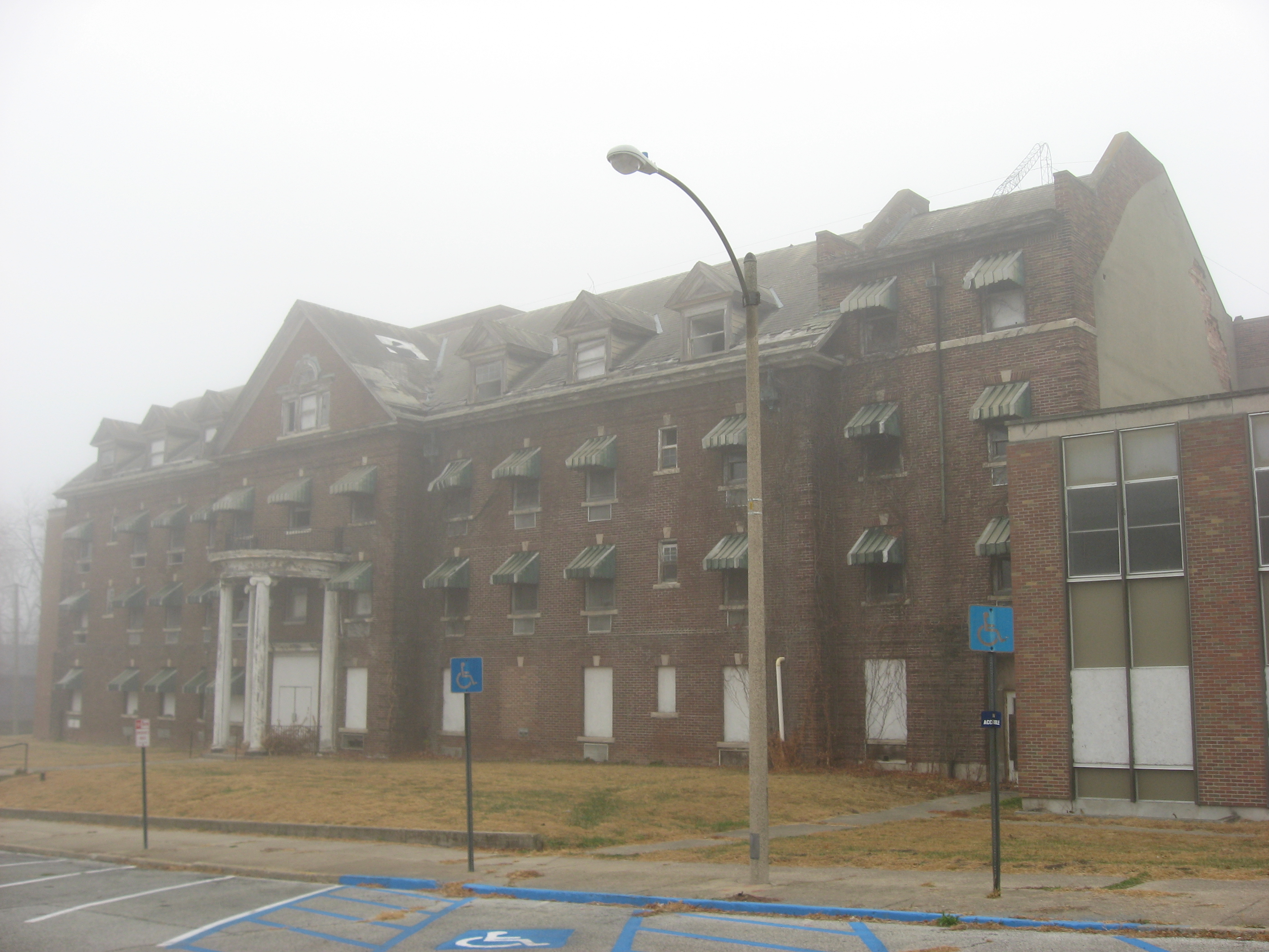 Front of the Culver Union Hospital, located at 306 Binford Street in Crawfordsville, Indiana, United States. Built in 1929, it is listed on the National Register of Historic Places.